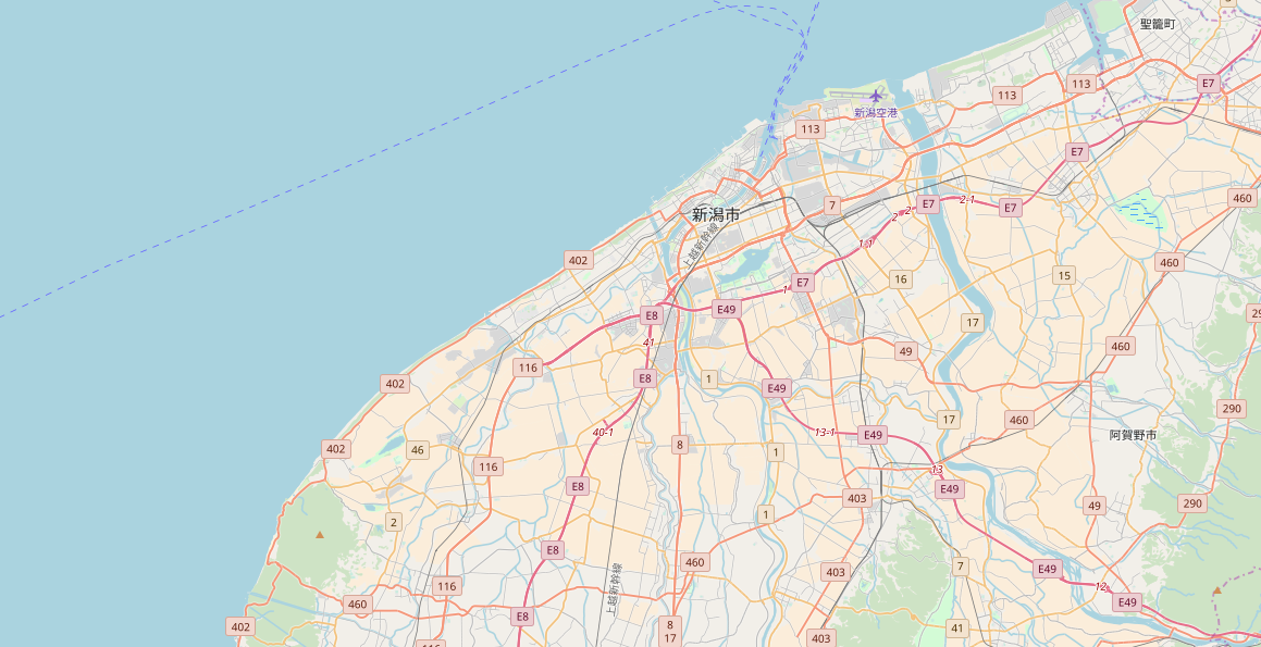 This map of Niigata was created from OpenStreetMap project data, collected by the community. This map may be incomplete, and may contain errors. Don't rely solely on it for navigation.